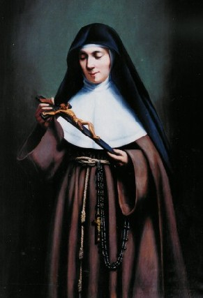 Portrait of mother Anna Maria Antigó, at Perpignan convent of Sainte-Claire